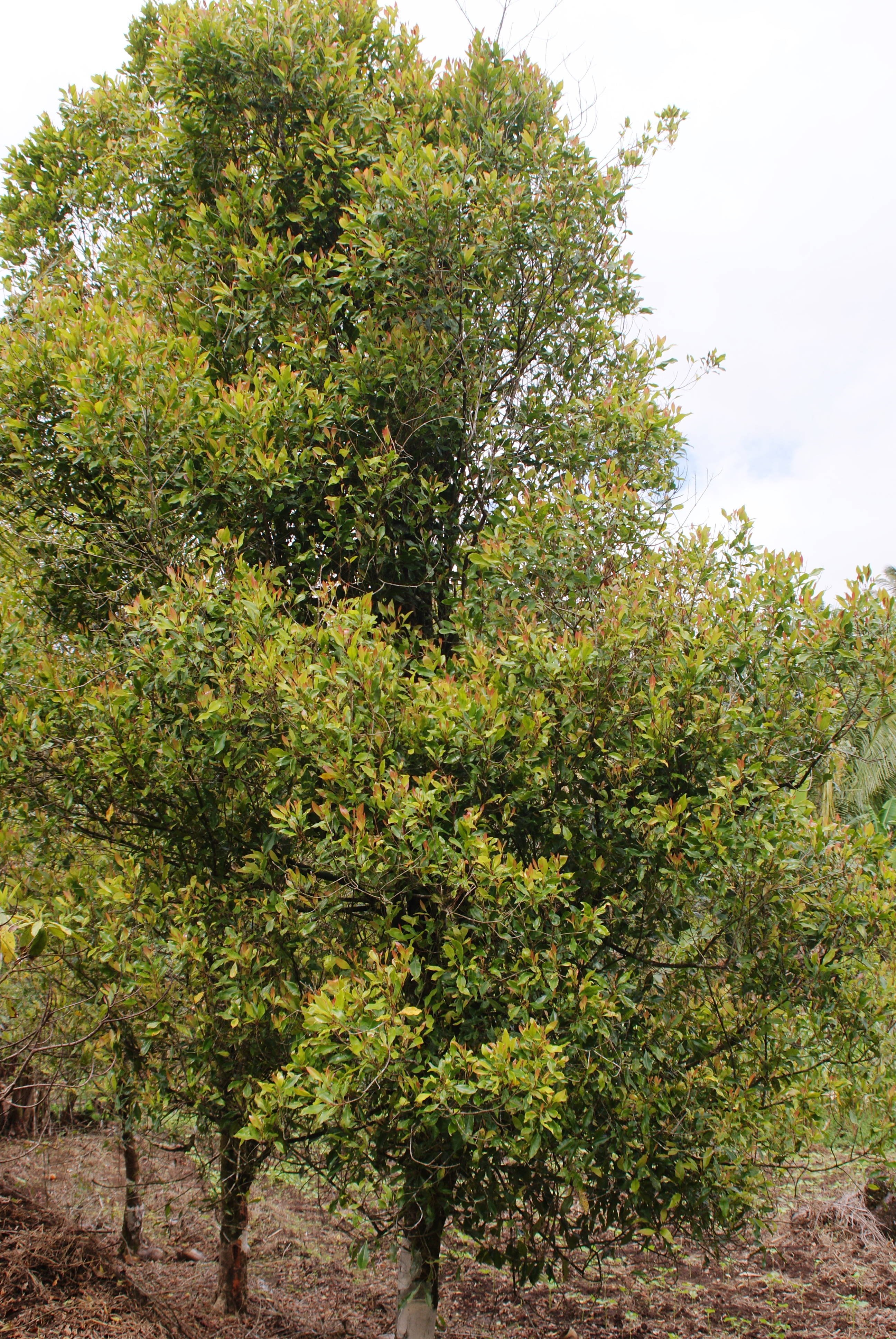 Clove, Syzygium aromaticum, North Sulawesi, Indonesia